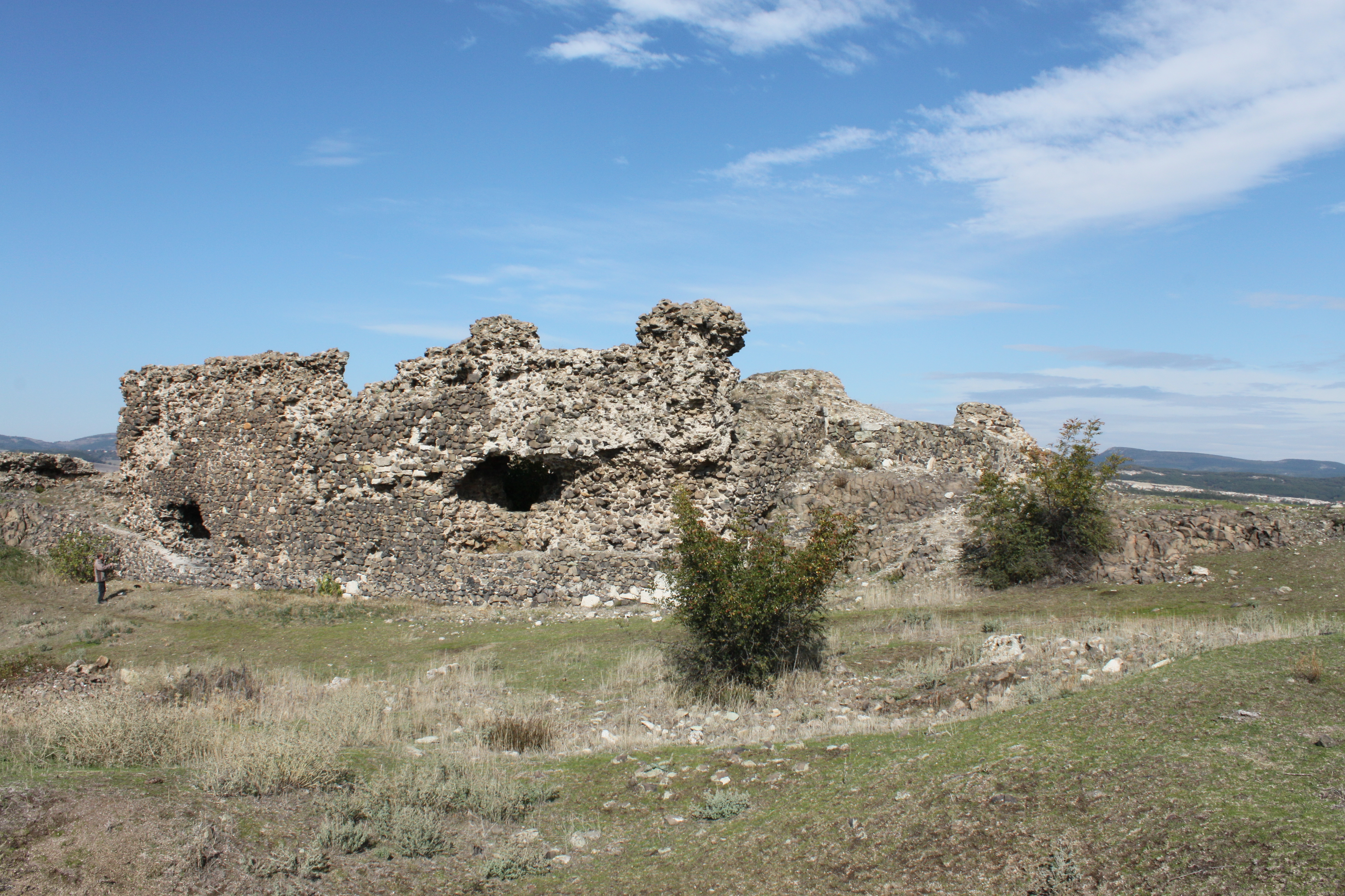 Vishegrad fortress, Kardzhali , Bulgaria